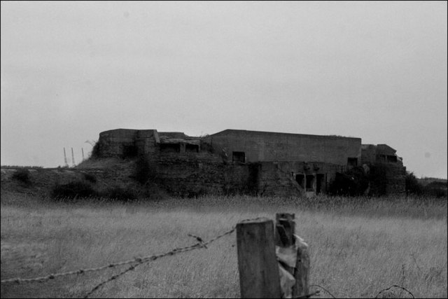 Grain Dummy Battery. Along a little-known road on the edge of Grain, sandwiched been the power station and Medway estuary, lies the Grain Dummy Battery. Built in the 1860's as part of the Medway estuary defences, it was never completed as originally planned due to subsidence.